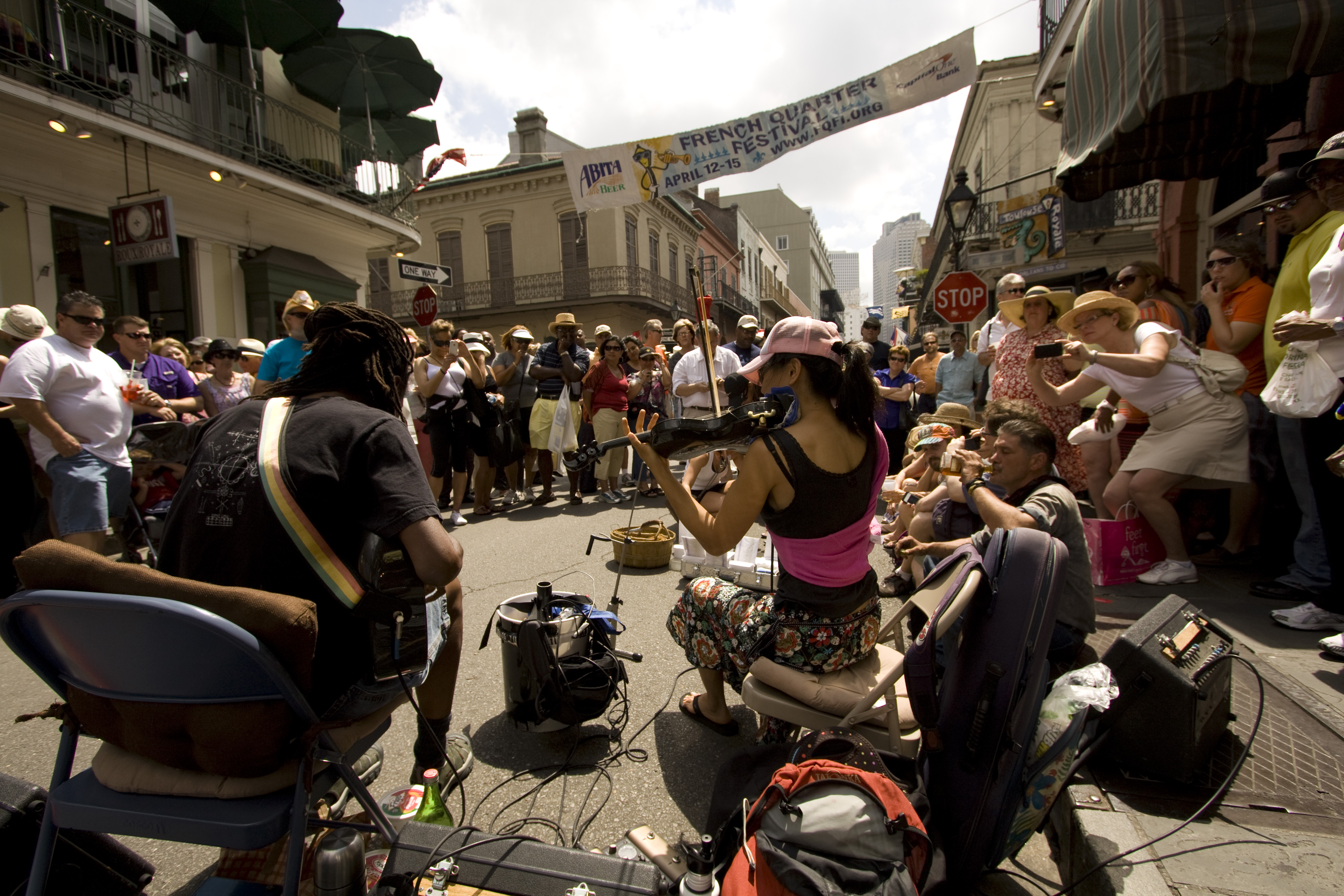 French Quarter Street Performers on Royal Street at French Quarter Fest